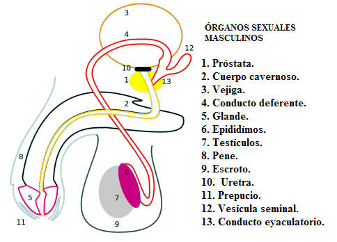 Drawing of the male sexual system to use in Spanish. It can be modied in its language.